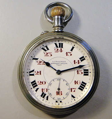 pocket watch Longines by Bozidar Misic (for Serbian wikipedia)